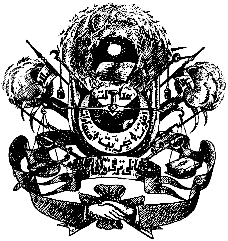 Emblem of the Committee of Union and Progress